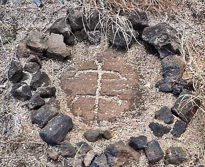 Petroglyph on the western coast of Hawaii